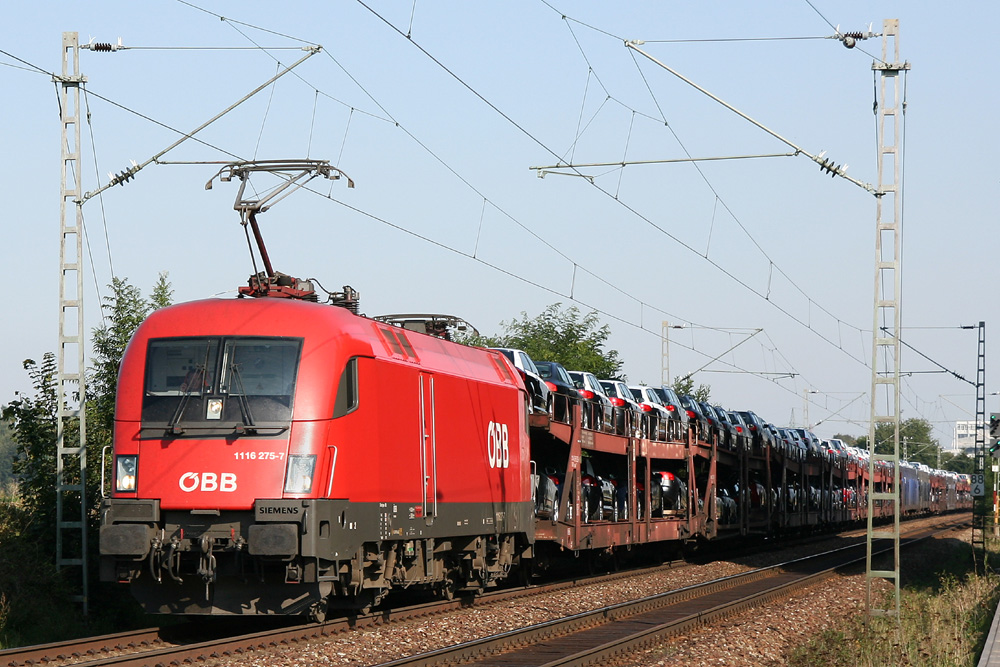 ÖBB class 1116 locomotive near Gaimersheim